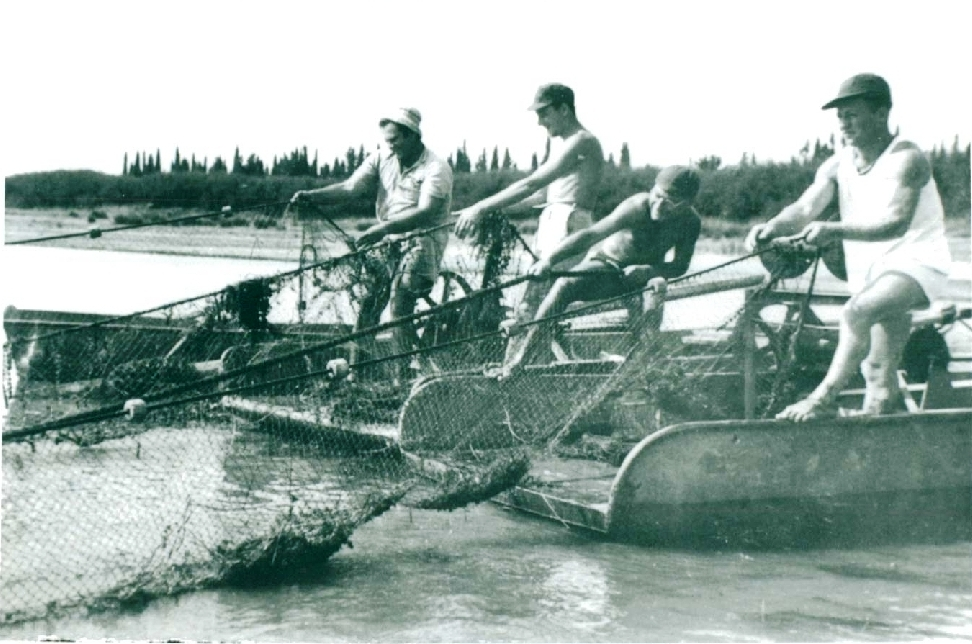 Ha'hula, Agriculture in Israel